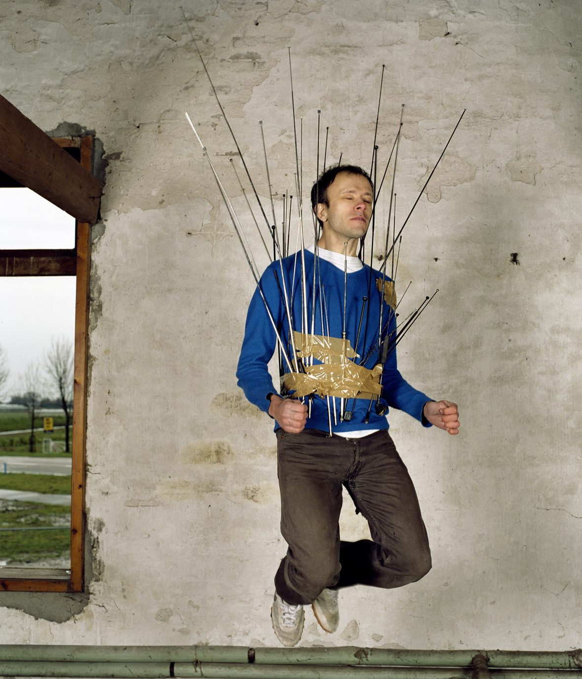 6EME BIENNALE INTERNATIONALE DE LA PHOTOGRAPHIE ET DES ARTS VISUELS DE LIEGE - VISUEL 5/10 COPYRIGHT : Territoire mental (MAMAC + Cabinet des Estampes) ANOUK KRUITHOF, no title, from the series « We are the blue people », 2007, 31,8x27,25cm, lambda print on forex